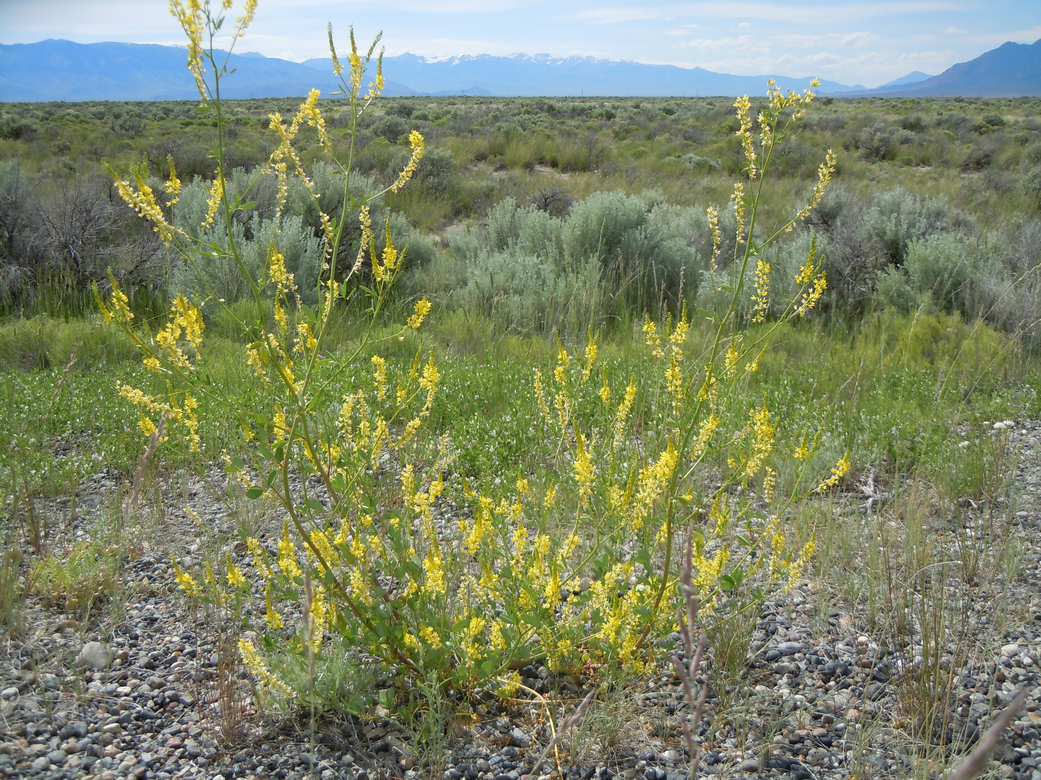 Sweetclover in this area is essentially an inhabitant of disturbance-prone settings.